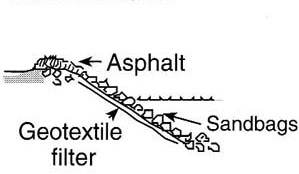 Revetment